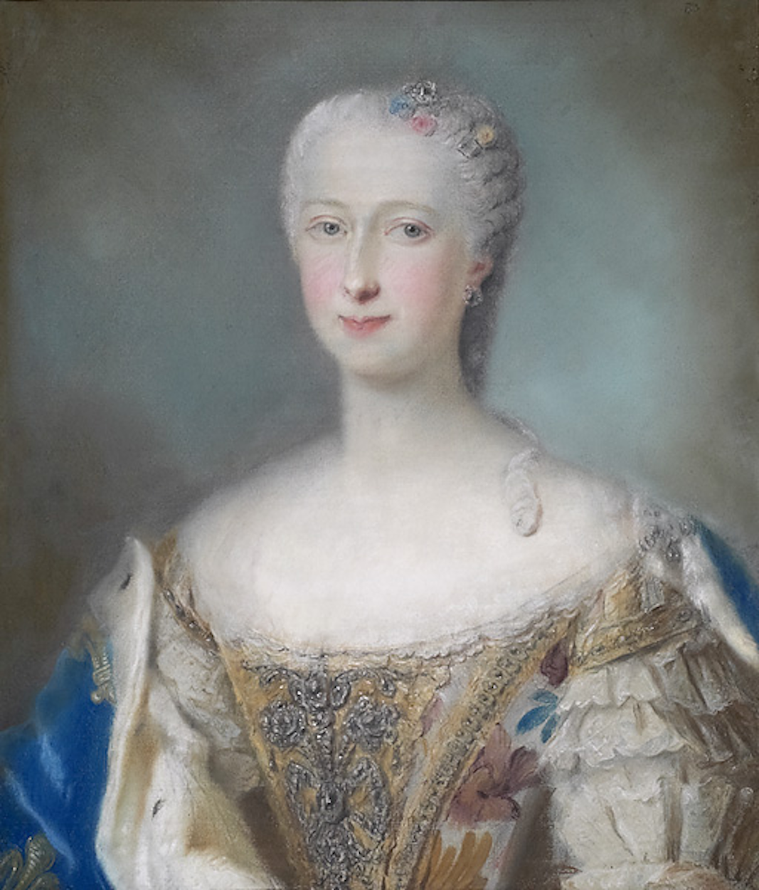 Portrait of Maria Teresa Felicitas d'Este (1726-1754), Duchess of Penthièvrelabel QS:Len,"Portrait of Maria Teresa Felicitas d'Este (1726-1754), Duchess of Penthièvre" label QS:Lfr,"Madame la duchesse de Penthièvre"